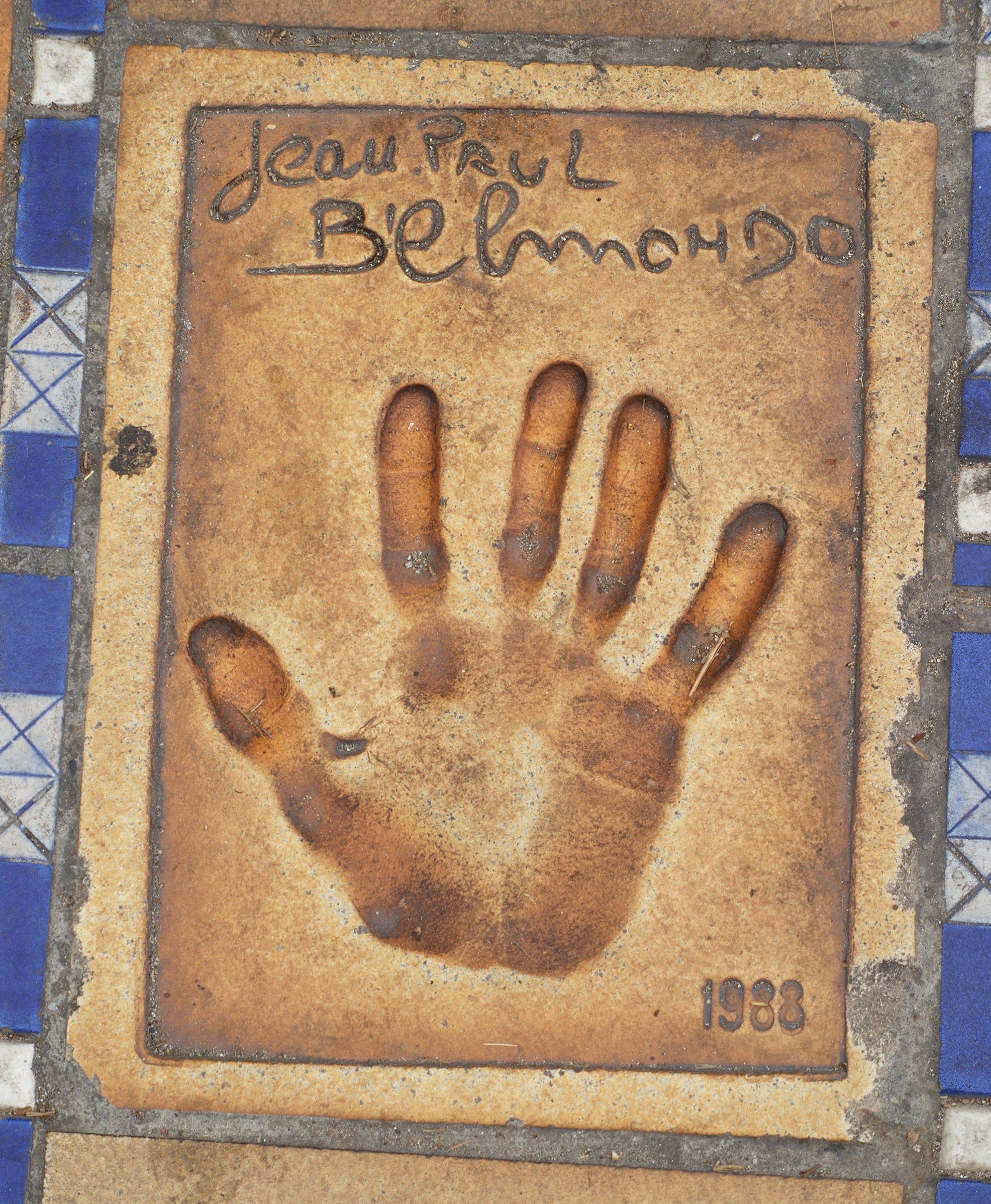 Handprint and autograph of Jean-Paul Belmondo on the walkway in front of the Palais des Festivals et des Congrès in Cannes.